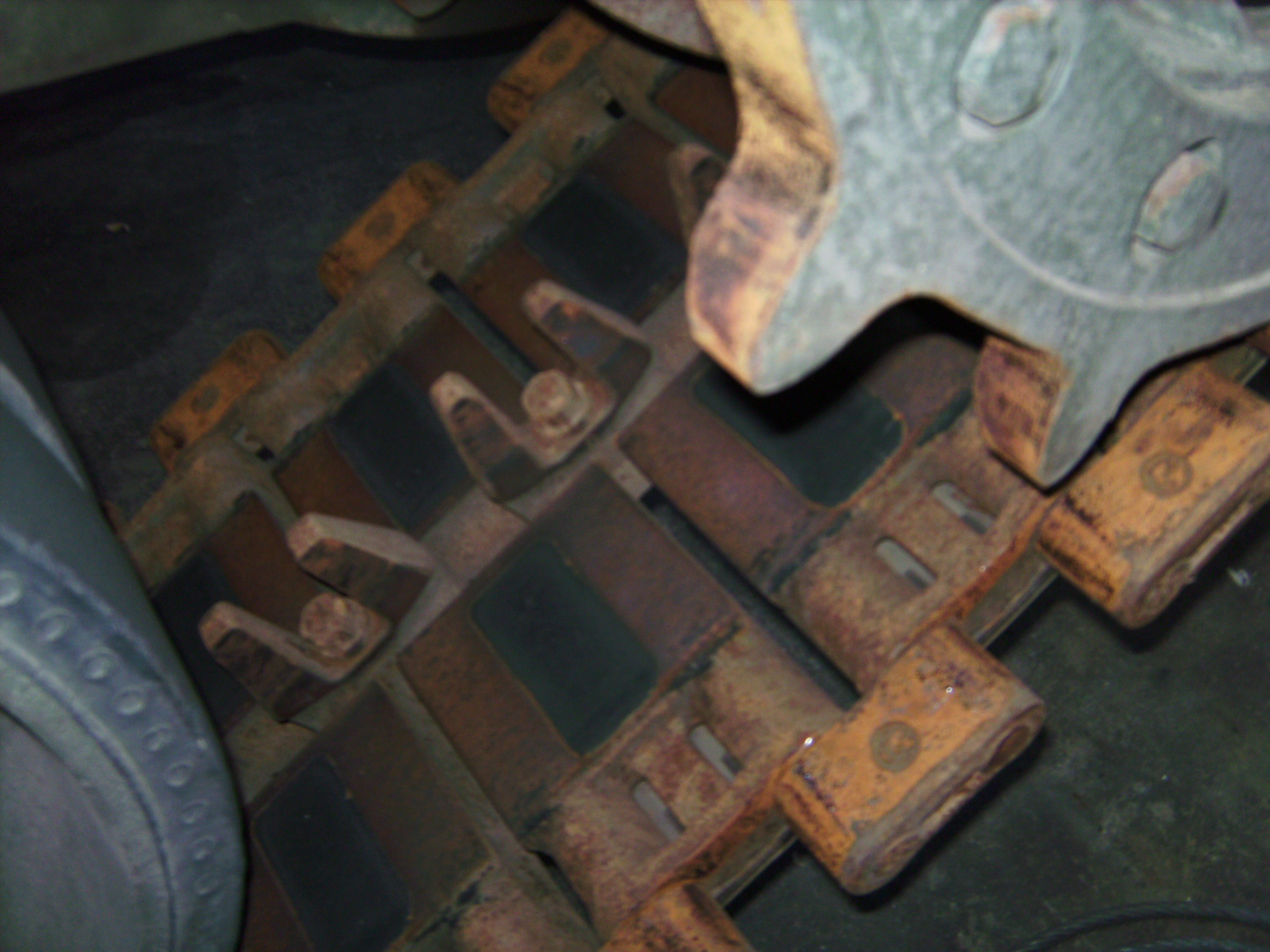 Track